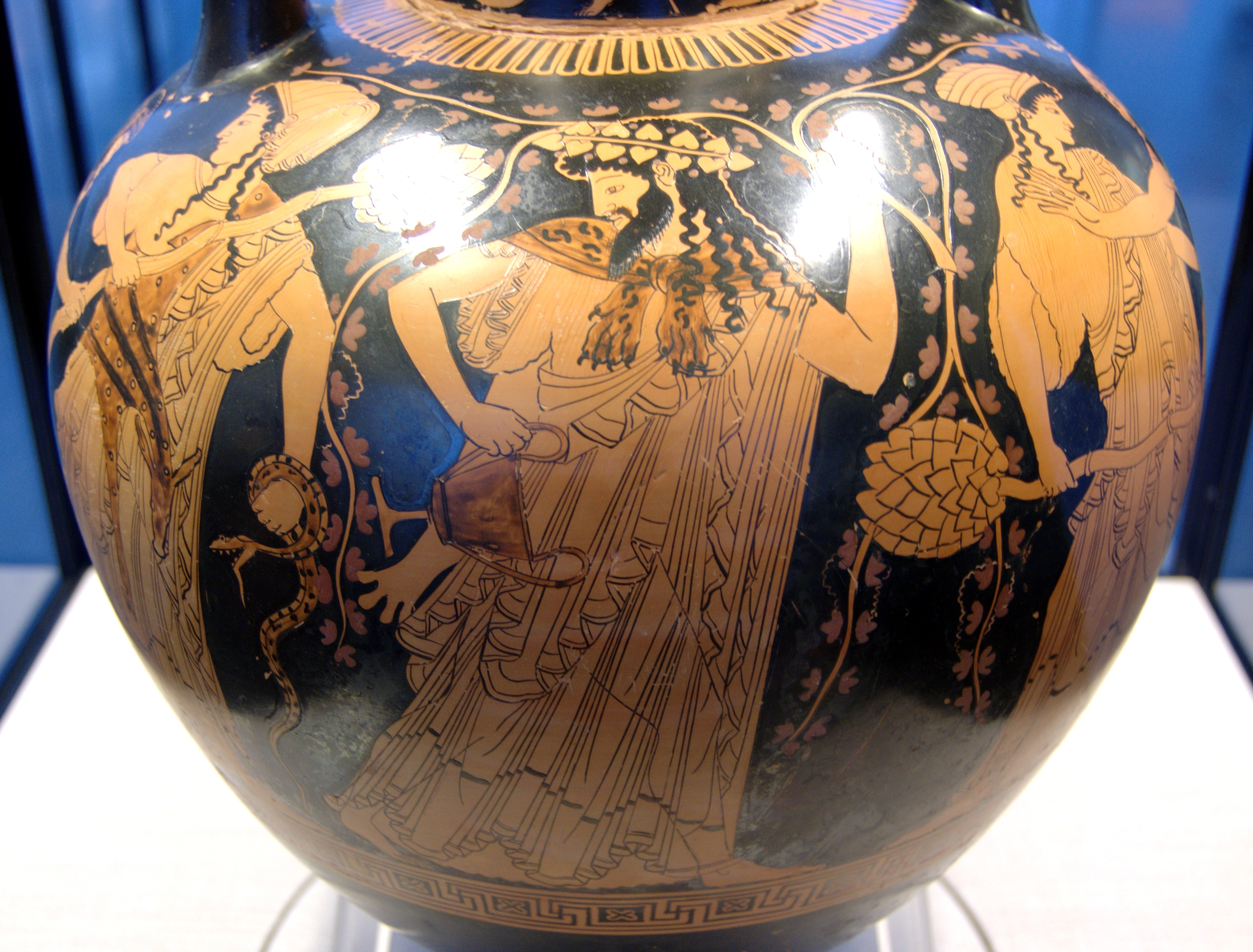 Dionysiac thiasos. Attic red-figure pointed amphora.